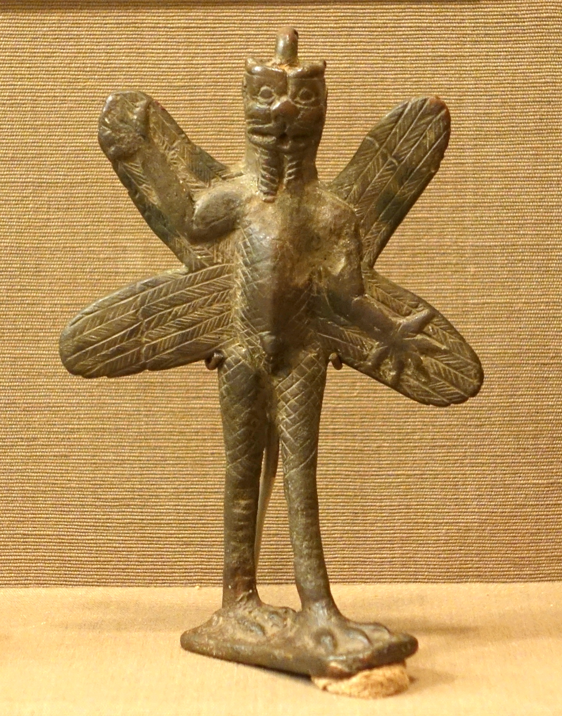 Exhibit in the Oriental Institute Museum, University of Chicago, Chicago, Illinois, USA. This work is old enough so that it is in the public domain.